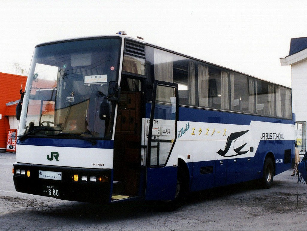 JR bus Tohoku Highway bus "EX-North"(Sendai-Mutsu),Isuzu Super Cruiser